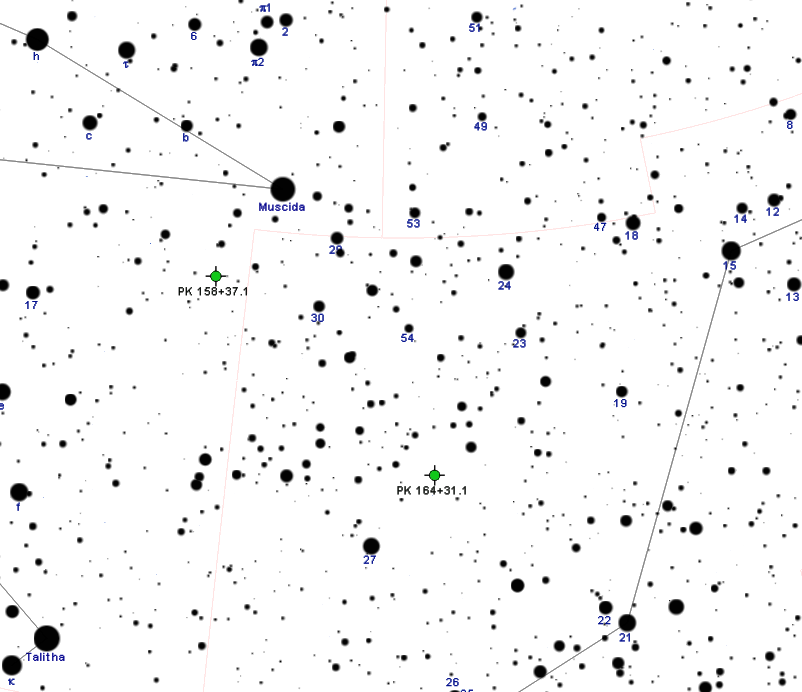 Map of PK 164